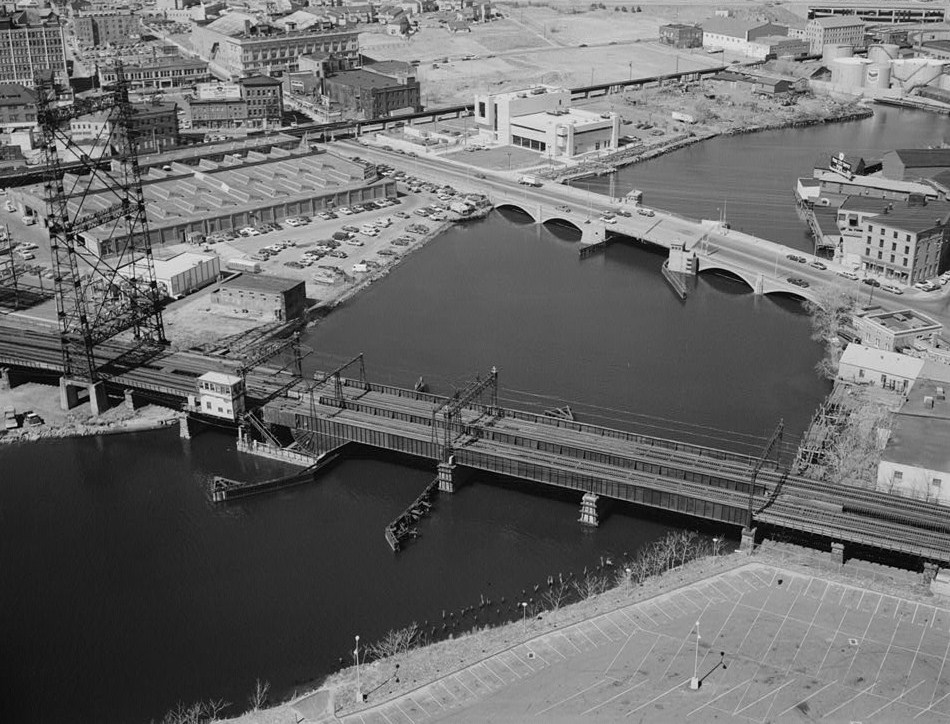 Pequonock River Bridge, Bridgeport (Fairfield County, Connecticut)